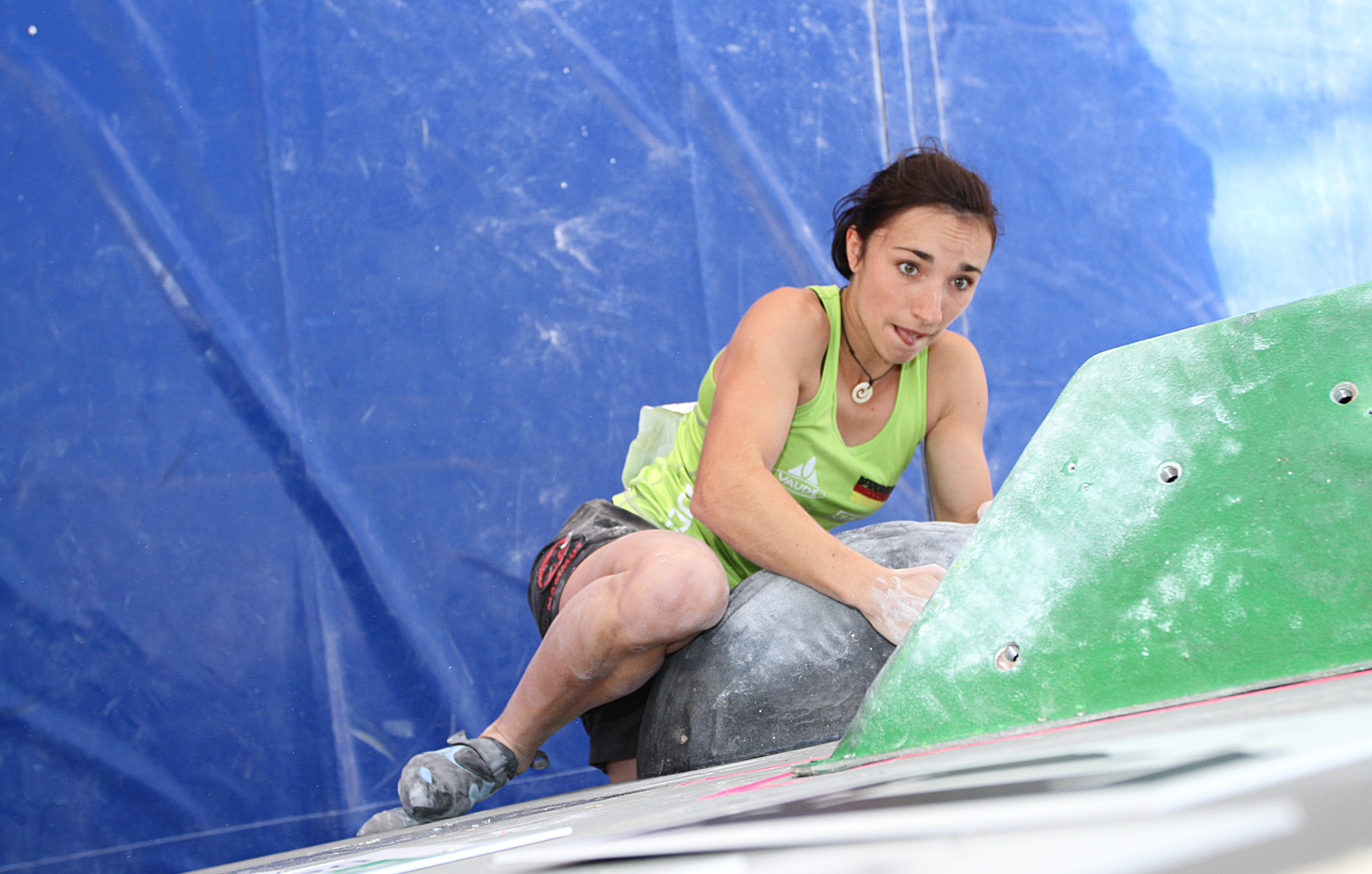 Juliane Wurm, Jule Wurm, GER at the Boulder Worldcup 2012